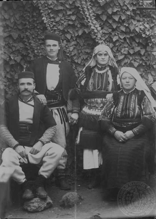 People from Smilevo village, Bitolya